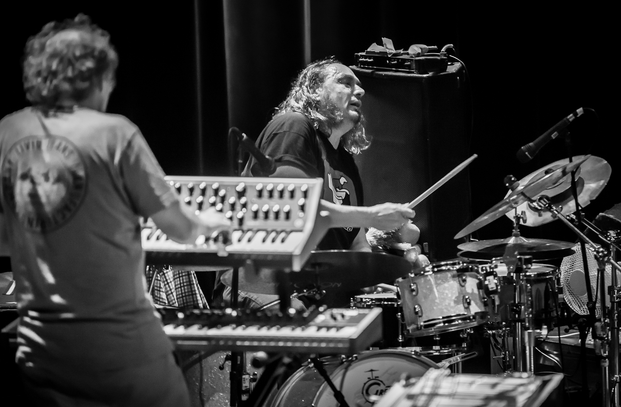 Paolo Vinaccia with Bugge Wesseltoft during Arendal Sessions at music festival Canal Street, Norway 2015. Photo: Birgit Fostervold.